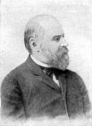 Mily Balakirev (1837–1910), Russian composer, pianist, and conductor. Portrait from the 1900s.